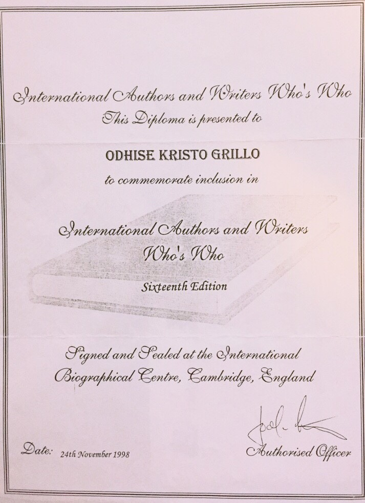 a copy of the my father's inclusion in International Authors and Writers Who's Who, Sixteenth Edition from Biographical Centre, Cambridge, England